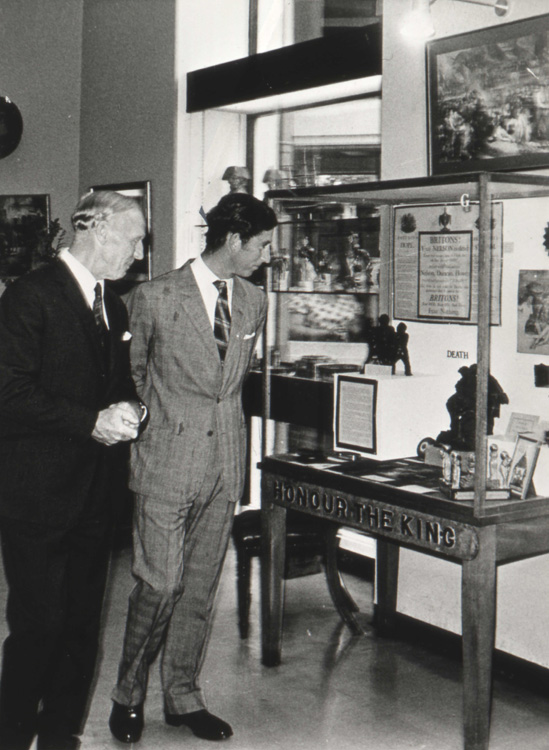 Monmouth Museum, July 14th 1975 view of Prince Charles with K.E. Kissack, curator, looking at display "Honour the King". Monmouth Museum Identity Number: M3958